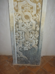 Base of one of the strings, leftside, first string entering